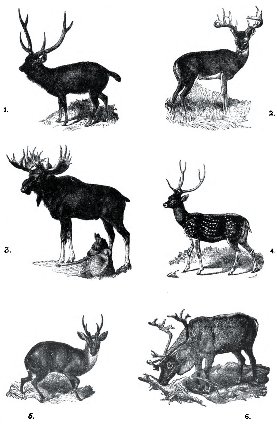 Chart showing six species of deer (Cervidae).